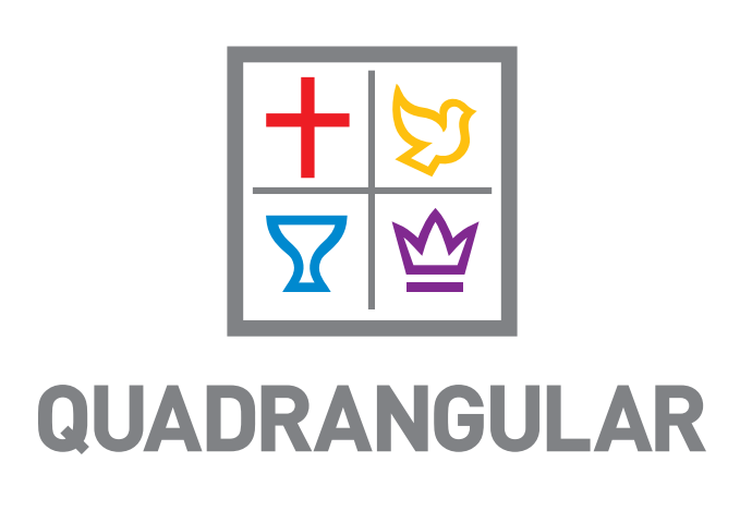 The Foursquare Church Brazil logo